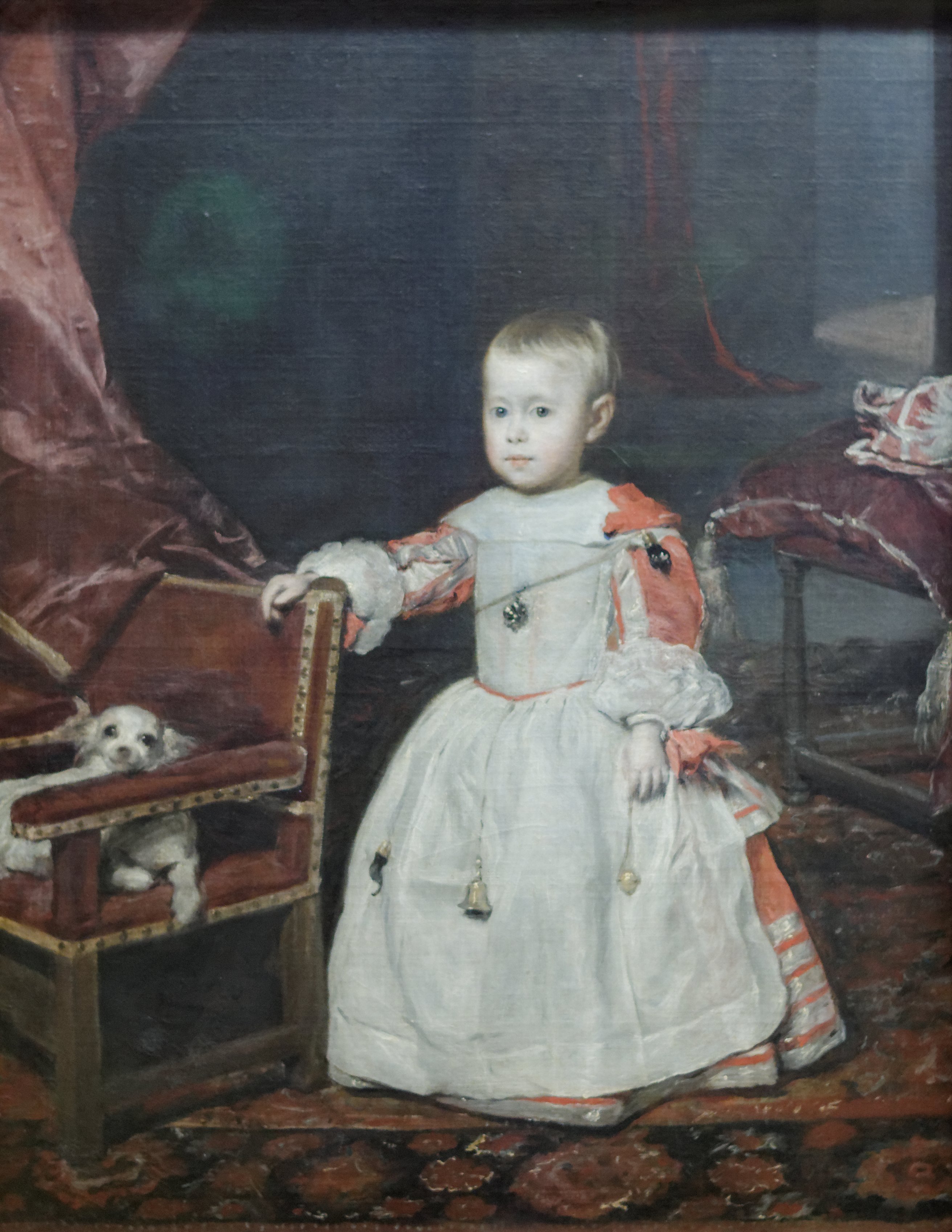 Philip Prosper (1657-1661), a son of Philip IV, was a delicate and sickly child. The hope that was placed at that time in the sole heir to the spanish crown is reflected in the depiction: fresh red and white stand in contrast to late autumnal, morbid colors. A small dog with wide eyes looks at the viewers as if questioningly, and the largely pale background hints at a gloomy fate: the little prince was barely four years old when he died